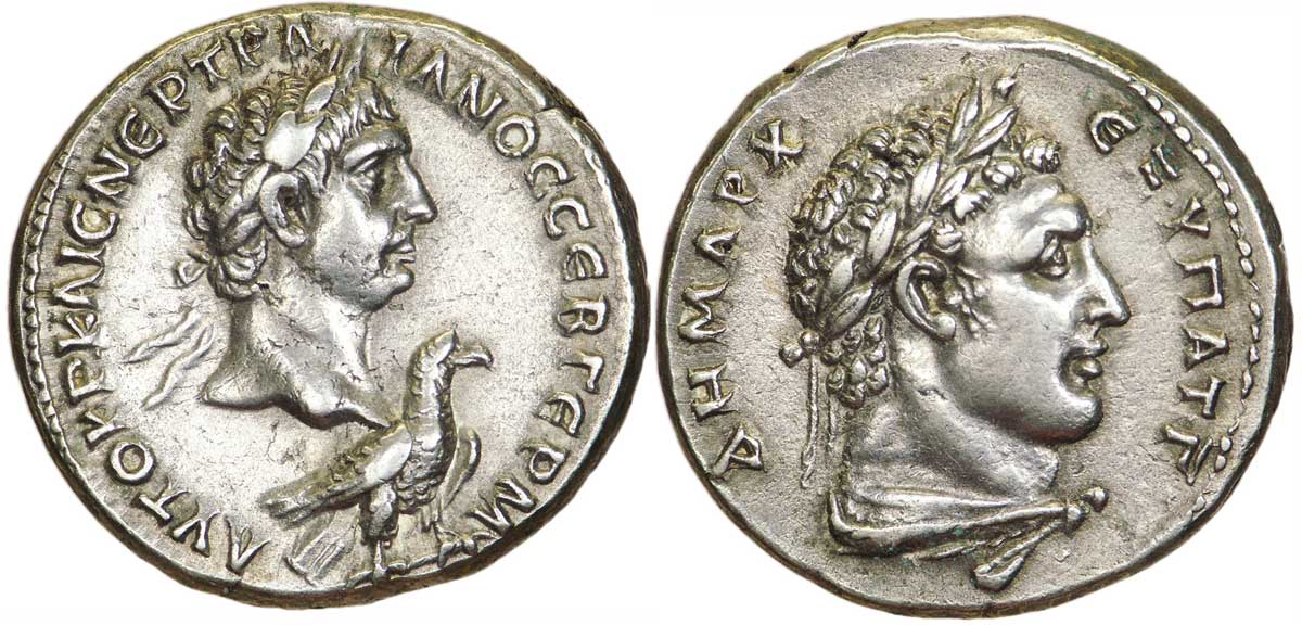 Monnaie frappée en la cité de Tyr